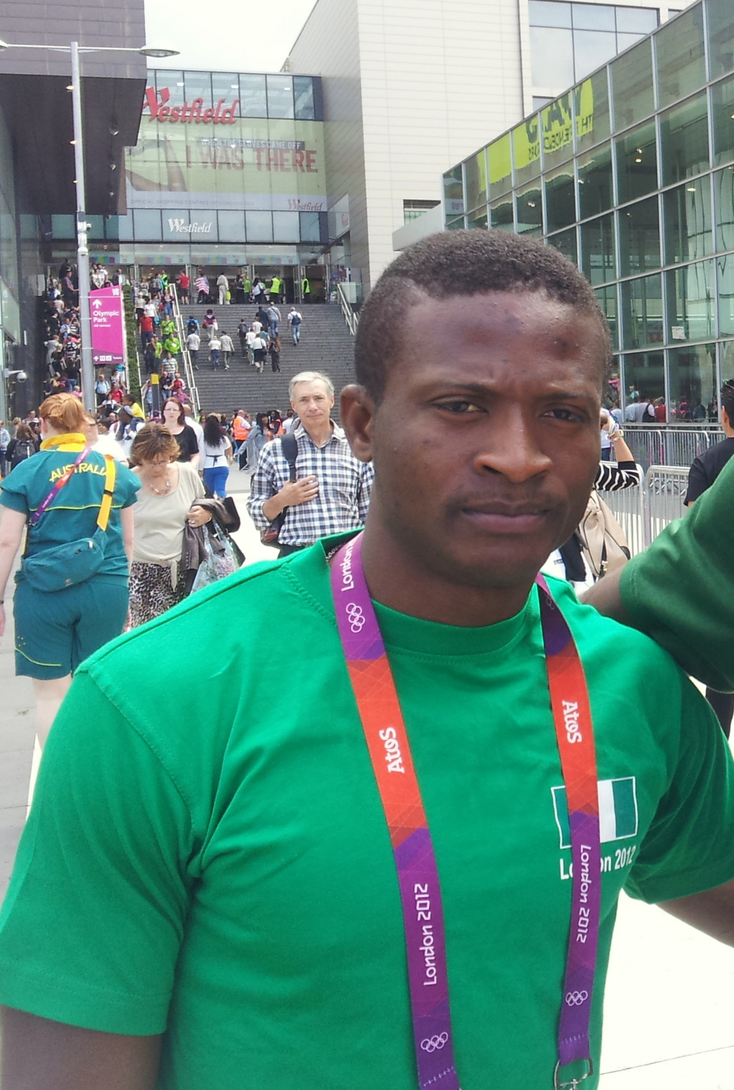 Nigerian sprinter Peter Emelieze, at The London 2012 Summer Olympic Games